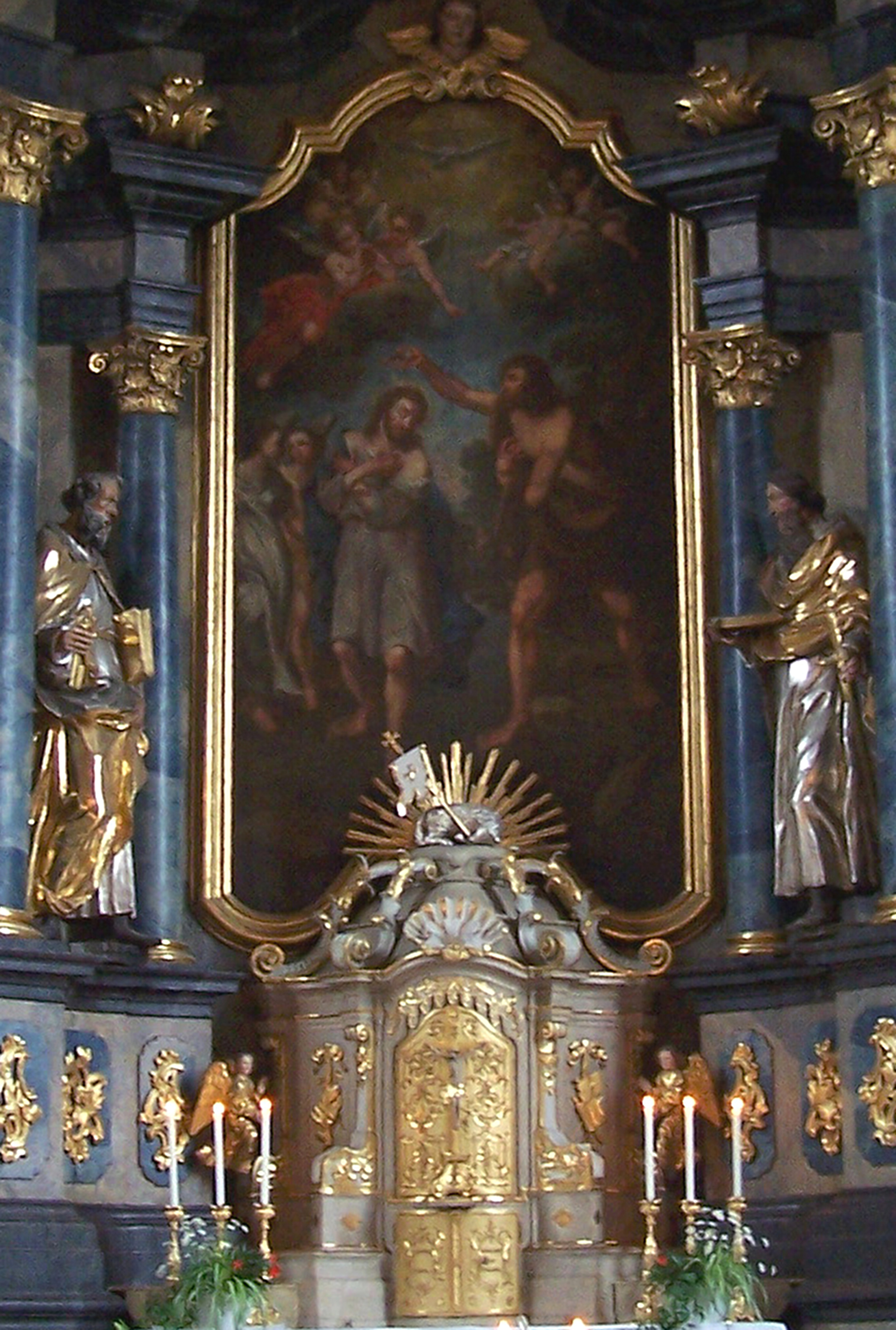 Main altar with a picture of Baptism of Jesus in the baroque catholic church St. John the Baptist in Mönchberg, July 2012